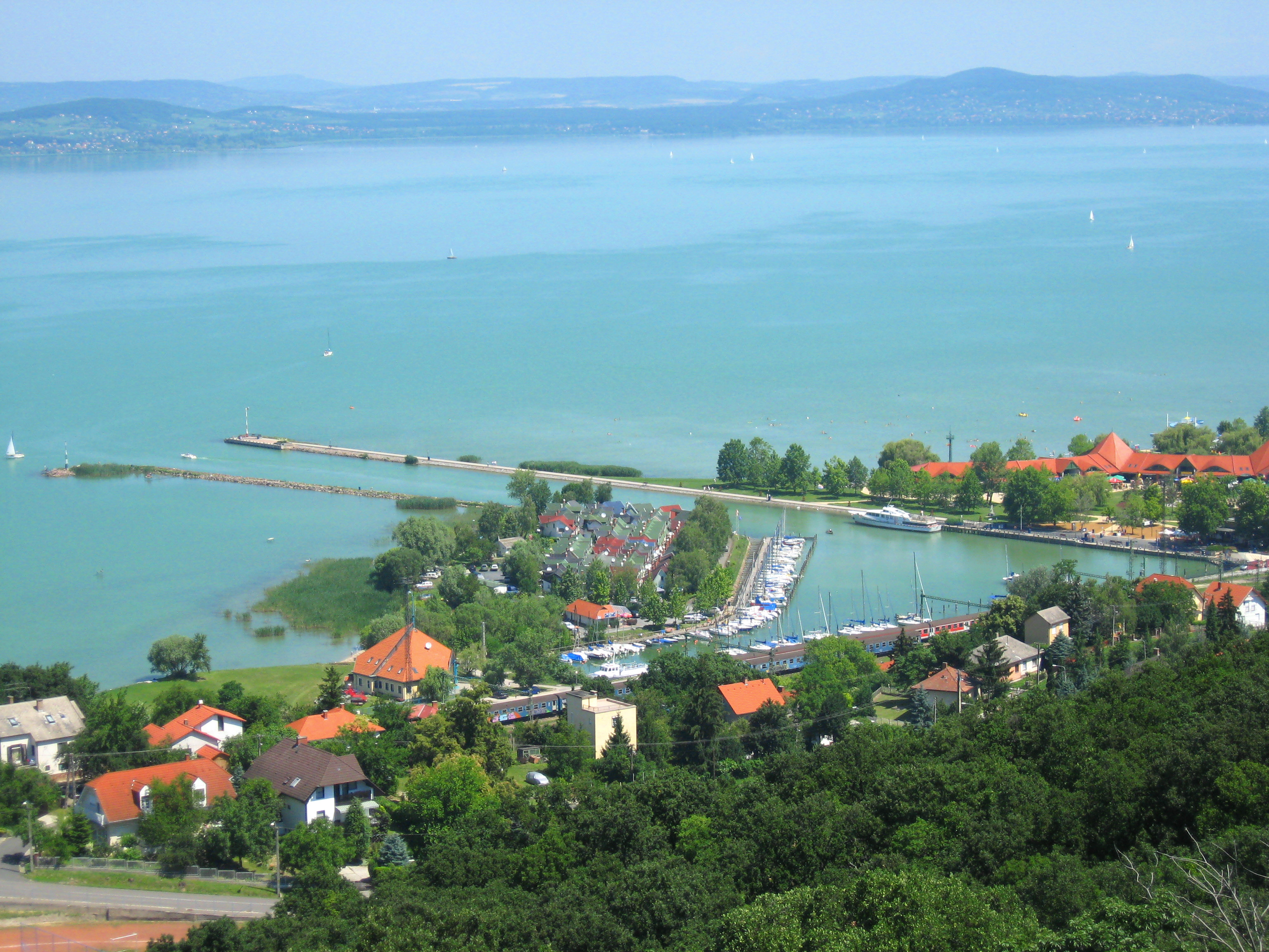 View of Port of Fonyód and Lake Balaton.